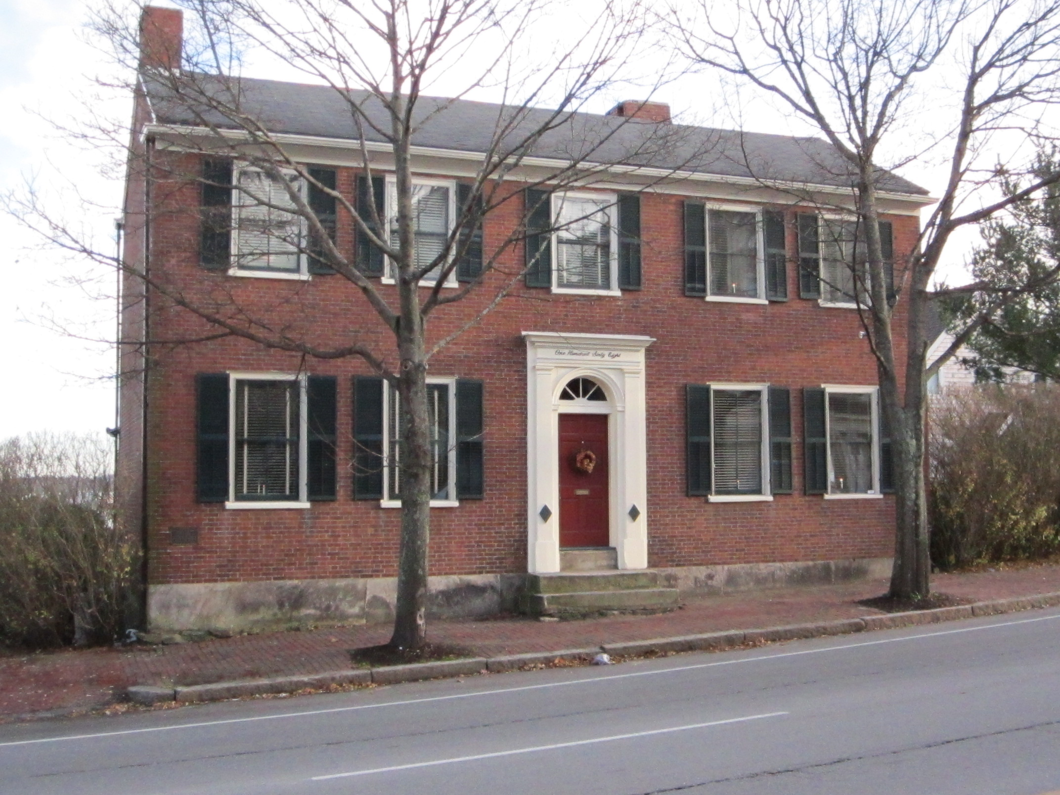 The Nathaniel Dyer House, located at 168 York Street in Portland, Maine, is listed on the National Register of Historic Places